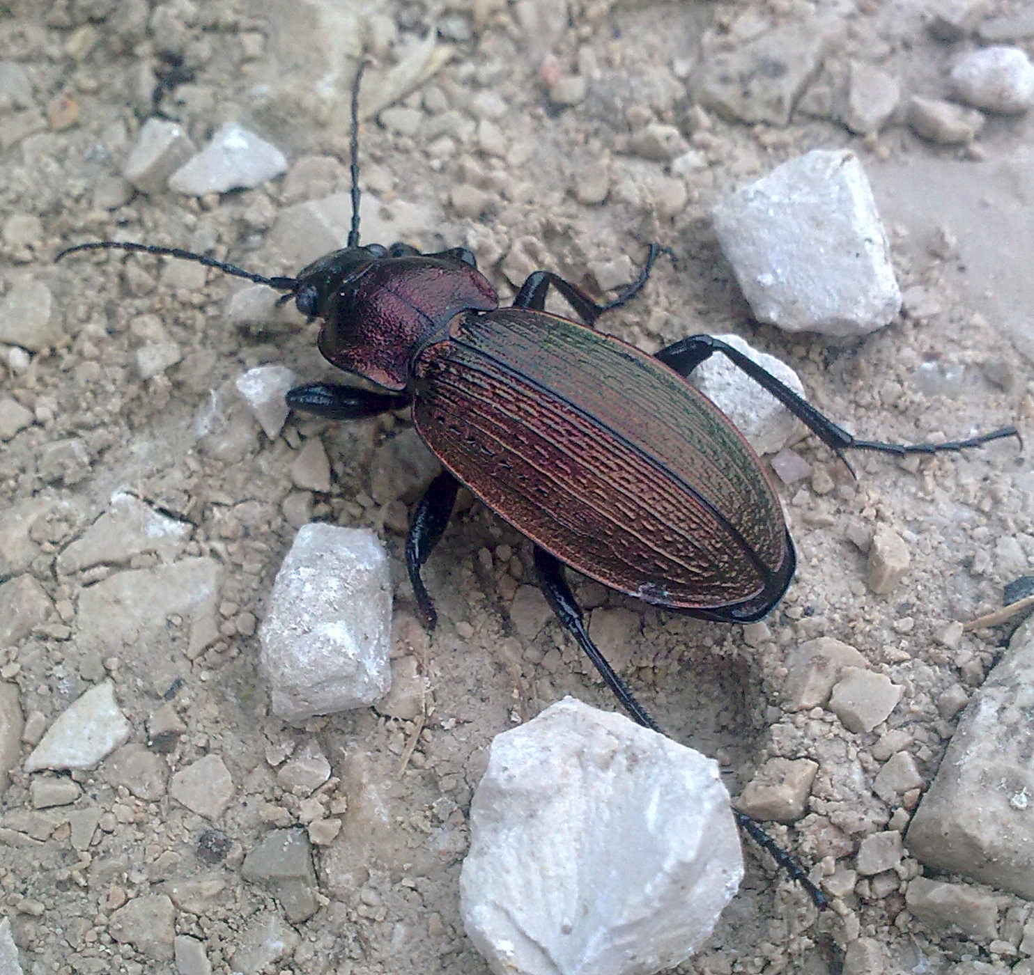 Carabus monilis from Southern Germany, near Spaichingen, 700m, at 2010-10-31